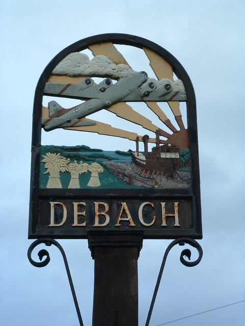 Debach Village Sign (Detail). Debach village sign. The village gave it name to the nearby WWII airfield see 307889 RAF_Debach